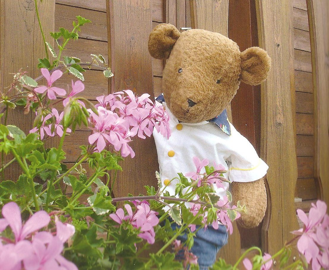 Teddy Bear, fictional animal (children's literature). Name : Péloulou. Writer : Martine Sagaert. Book : "Péloulou". Ed. la Treille muscate, 2010. ISBN 978-2-9538142-0-0